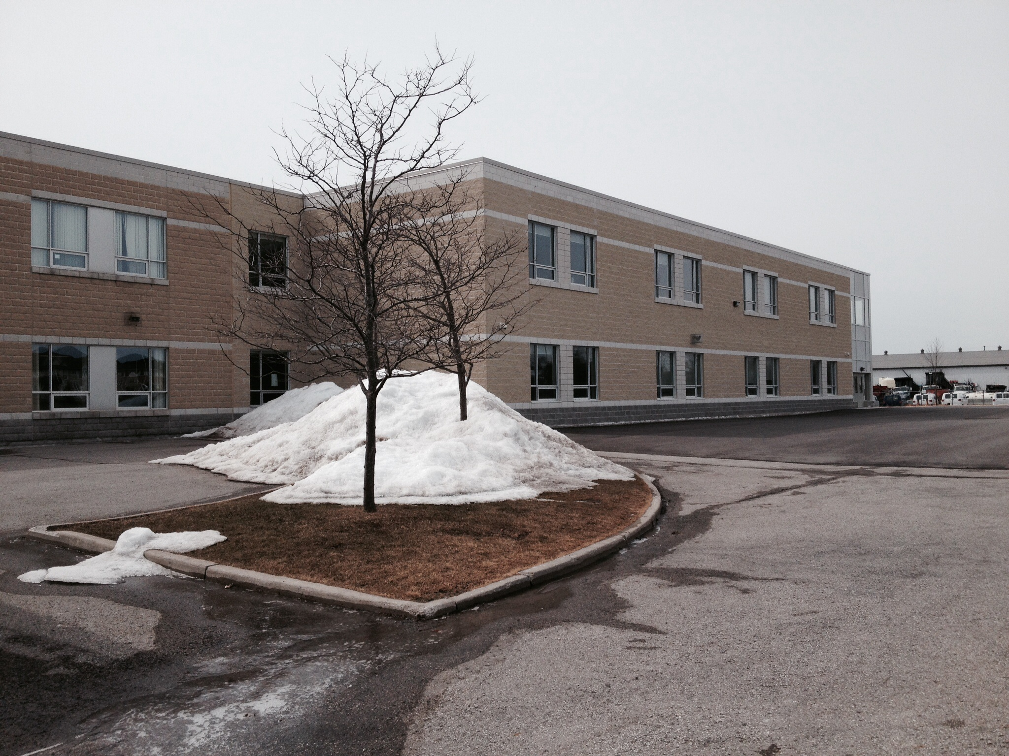 The newly build building of school